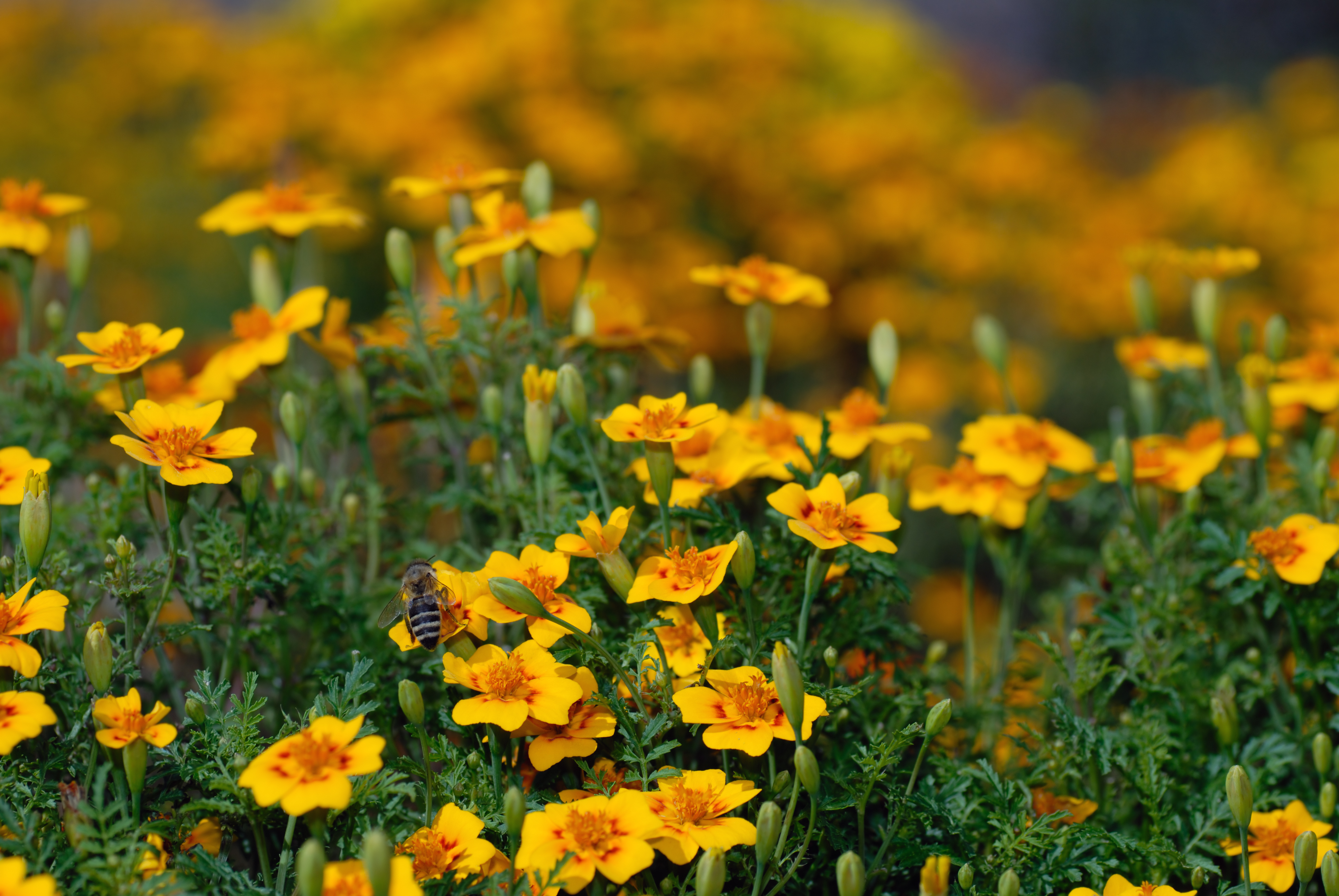 This image shows a few plants of the species Tagetes tenuifolia.